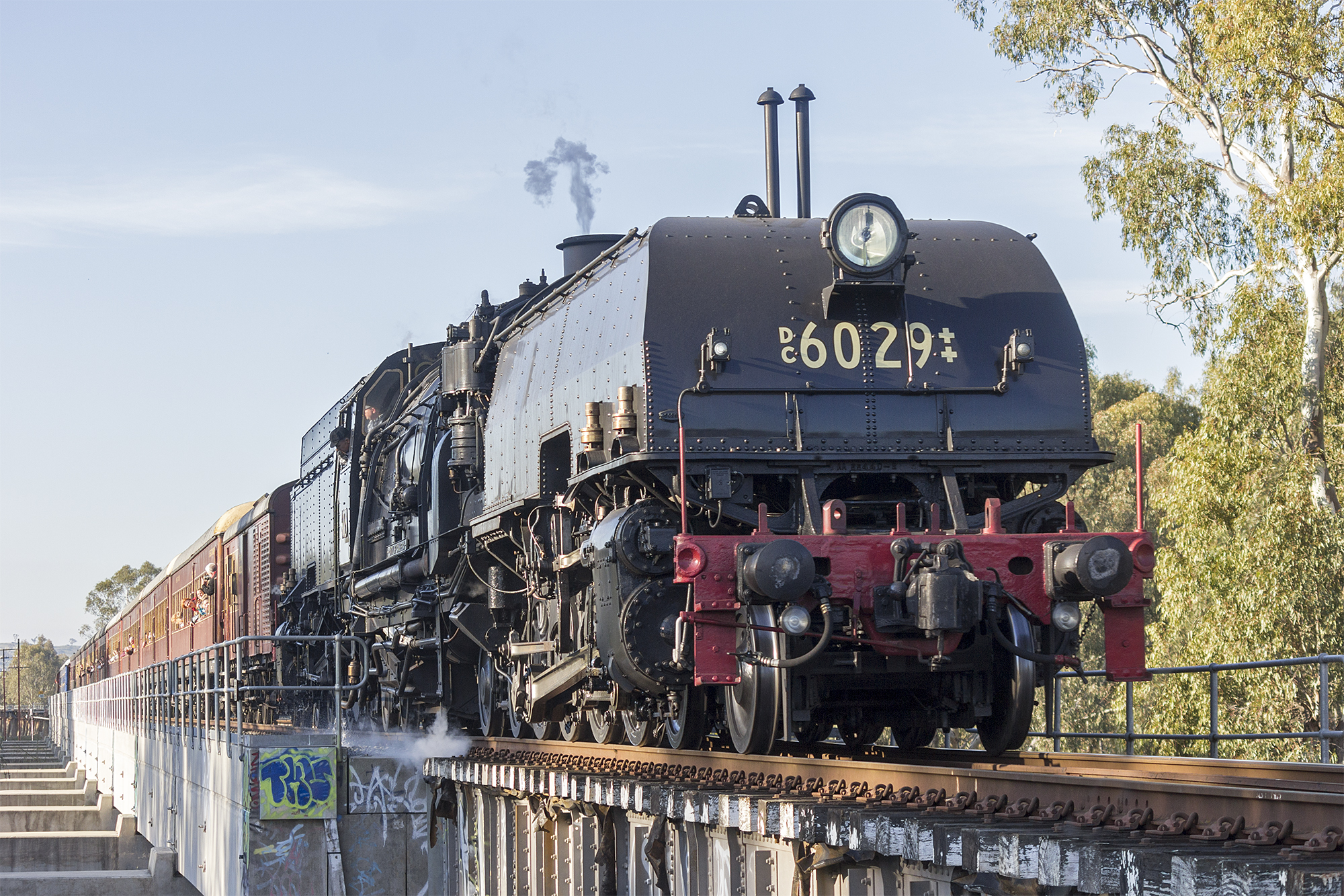 AD6029 New South Wales AD60 class locomotive crossing the Murrumbidgee River Railway Bridge in Wagga Wagga.